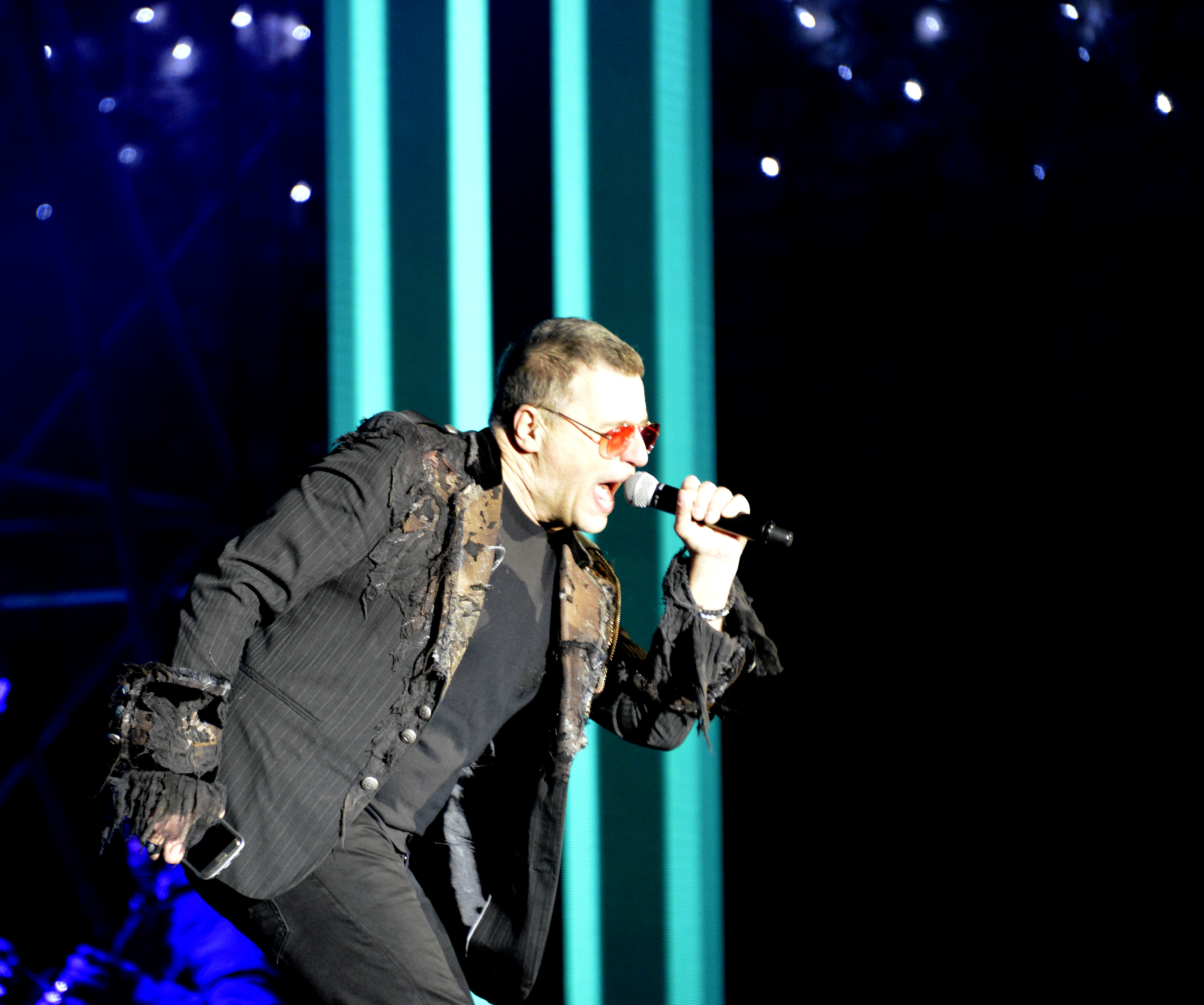 Zvonimir Đukić - Đule at the Van Gogh rock concert in Budva (Montenegro), January 1, 2019